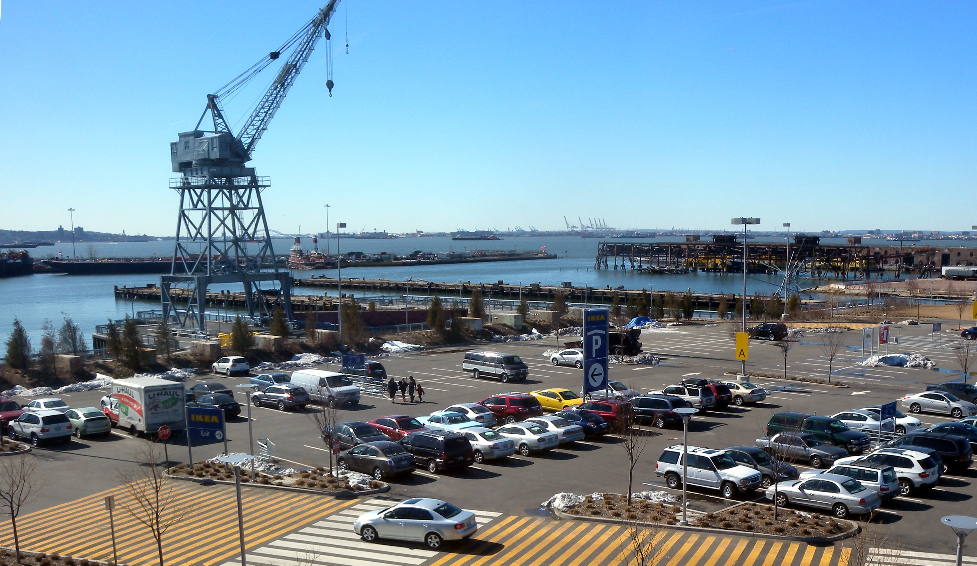 Looking west through Ikea third floor window at mouth of Erie Basin on a sunny midday.